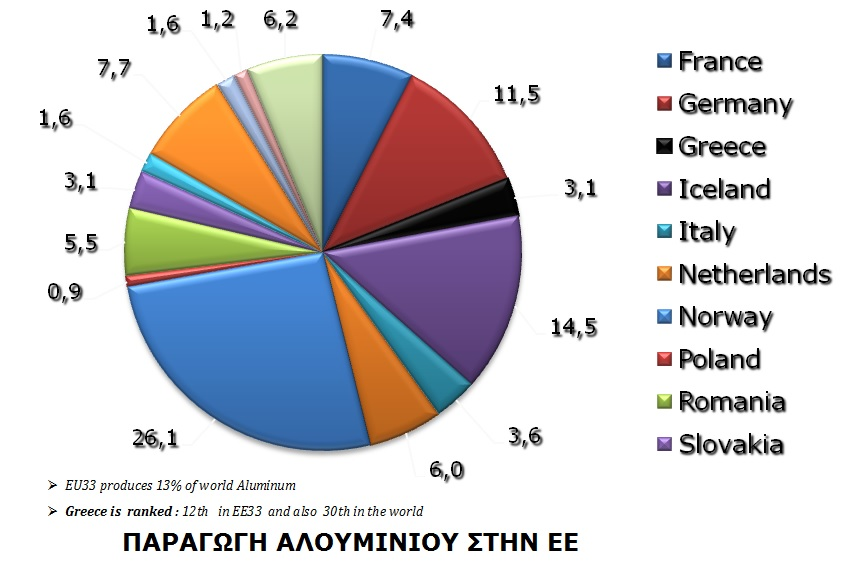 European Aluminum Production